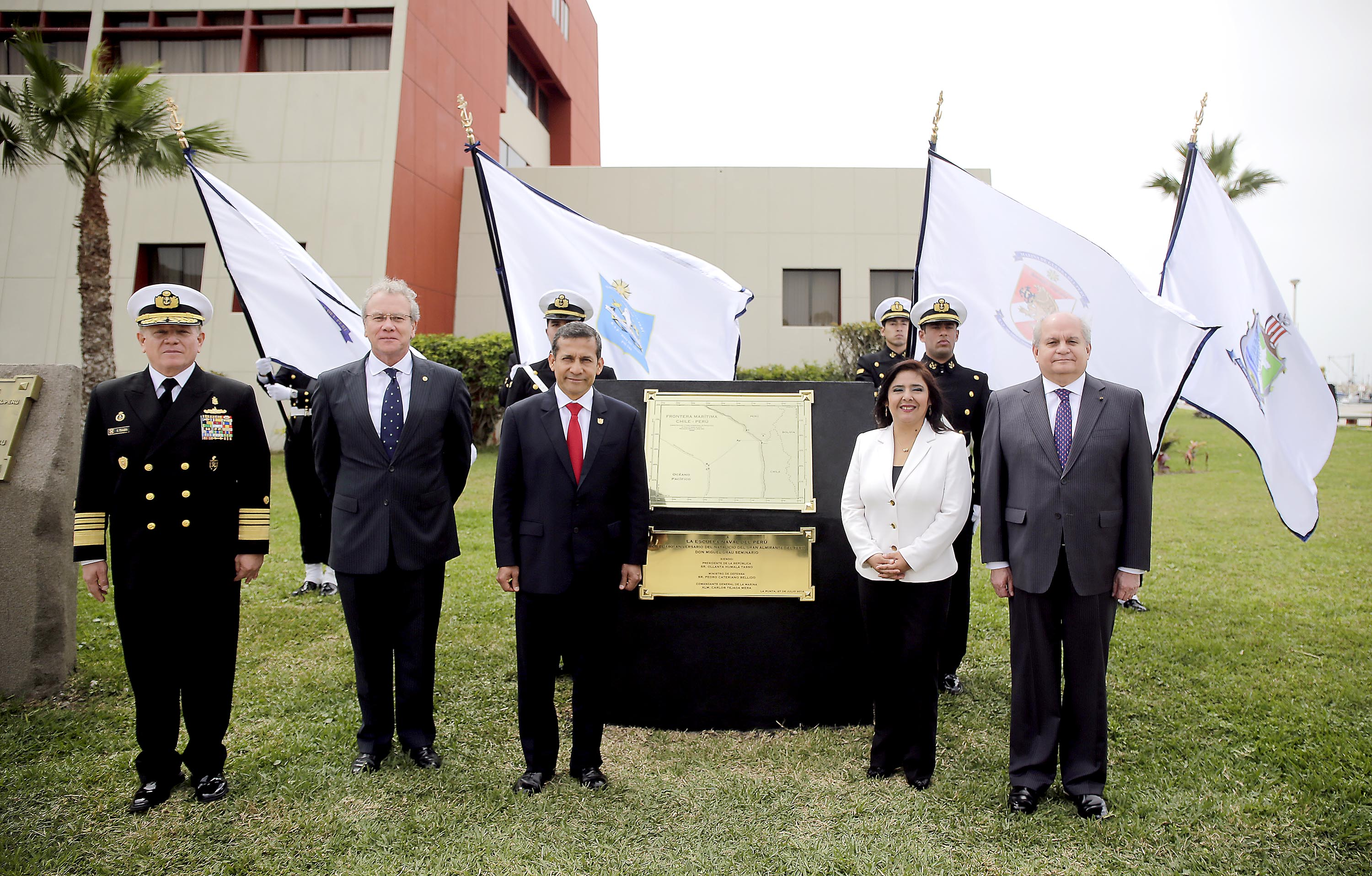 El Presidente Ollanta Humala y el ministro de Defensa, Pedro Cateriano, acompañados del comandante general de la Marina, almirante Carlos Tejada, develaron la placa conmemorativa de la delimitación marítima entre Perú y Chile, consecuencia del fallo de la Corte Internacional de Justicia de La Haya. La placa ubicada en la Escuela Naval de La Punta, Callao, es un homenaje a la memoria del Gran Almirante Miguel Grau Seminario, al haberse cumplido 180 años de su nacimiento. “La sentencia de la Corte Internacional de La Haya es una reivindicación histórica para la Nación y un acto de justicia. Con ella rendimos tributo a Miguel Grau y a quienes dieron su vida en defensa del Perú”, señaló el ministro Cateriano en su discurso. Reiteró la vocación pacifista de nuestro país y el respeto al orden jurídico internacional, instrumento por el cual se resolvió el diferendo marítimo que adjudicó al Perú más de 50 mil kilómetros cuadrados de mar. En este contexto, el titular del sector agradeció el trabajo que cumplió la Marina de Guerra desde el inicio del proceso, y finalmente en la labor que ejecutó en el establecimiento de las coordenadas de la nueva frontera marítima. El Presidente Humala recordó que el cumplimiento del fallo se dio en un plazo breve y destacó el papel que cumplieron la Marina, el Congreso, sectores políticos y la sociedad civil, lo cual demostró unidad de país. A la ceremonia también asistieron la presidenta del Consejo de Ministros, Ana Jara, el ministro de Relaciones Exteriores, Gonzalo Gutiérrez, y los viceministros de Políticas para la Defensa, Iván Vega, y de Recursos para la Defensa, Jakke Valakivi.